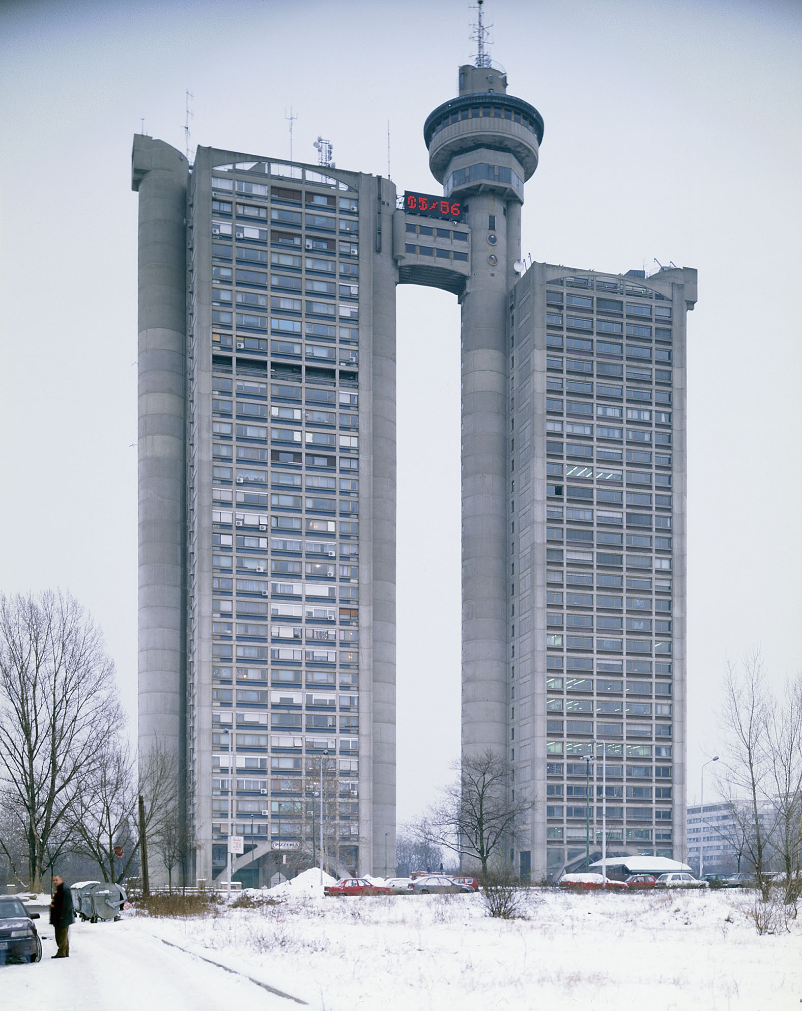 Western Gate of Belgrade in Novi Beograd. Also known at present as Genex Tower. Previously Jugotours.